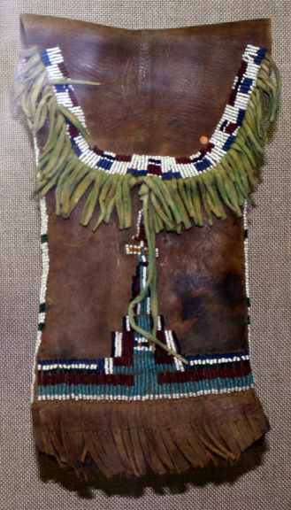 Comanche beaded ration bag, Oklahoma, ca. 1880, collect of the Oklahoma History Center. During the Reservation Era, Comanche and other Southern Plains women would beaded decorative pouches for their ration cards, utilizing scrap harness or boot leather.